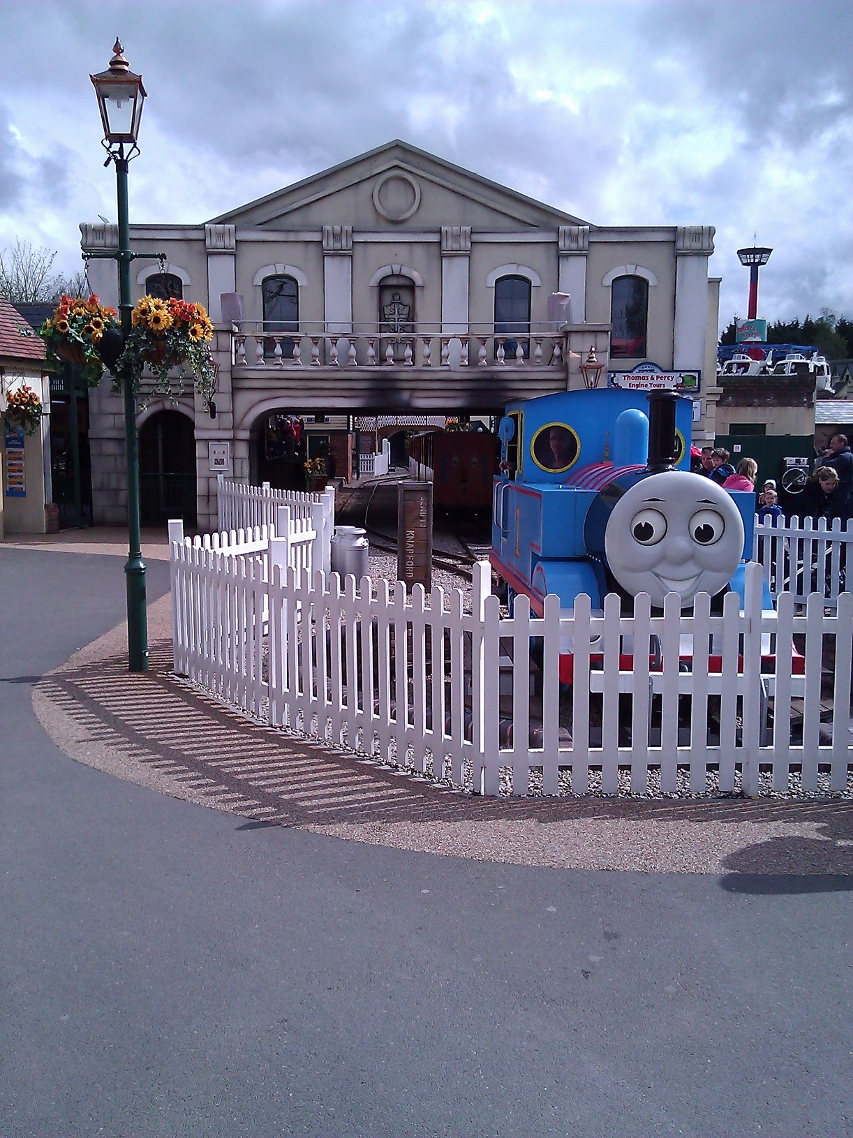 Image of Thomas Land, which I took myself